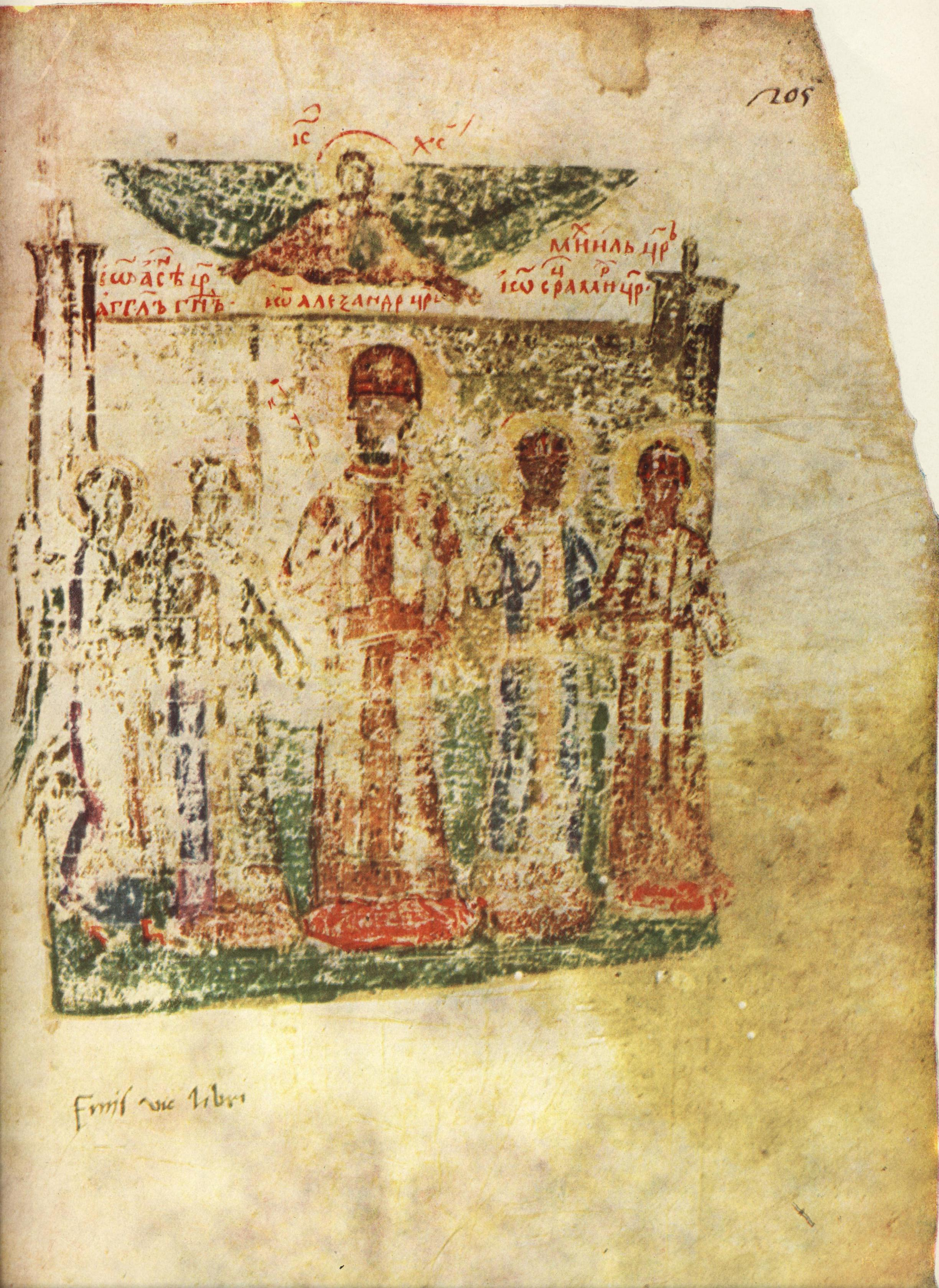 Miniature 69 from the Constantine Manasses Chronicle, 14 century: Tsar Ivan Alexander with his sons Ivan Sracimir, Ivan Shishman and late Ivan Asen